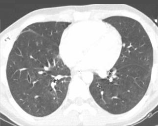 Caption reads, "Computed tomography scan performed 2 weeks following surgery. (a) Complete recovery of the pulmonary contusion (axial slice at the level of the lower lobes)."